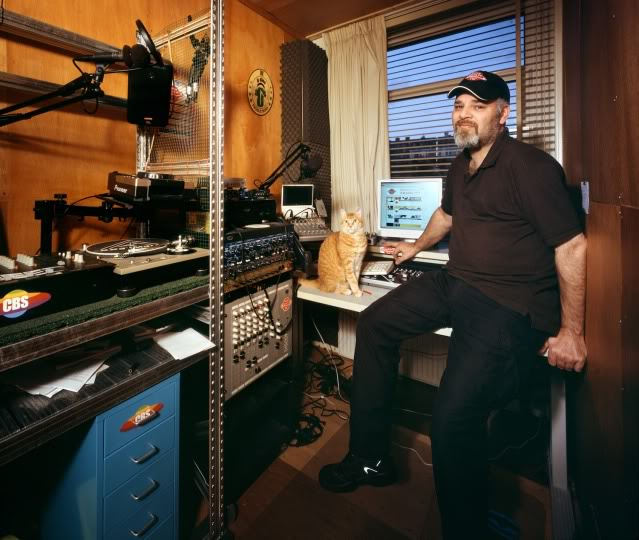 Dutch electro musician I-F alias Ferenc van der Sluijs in 2011